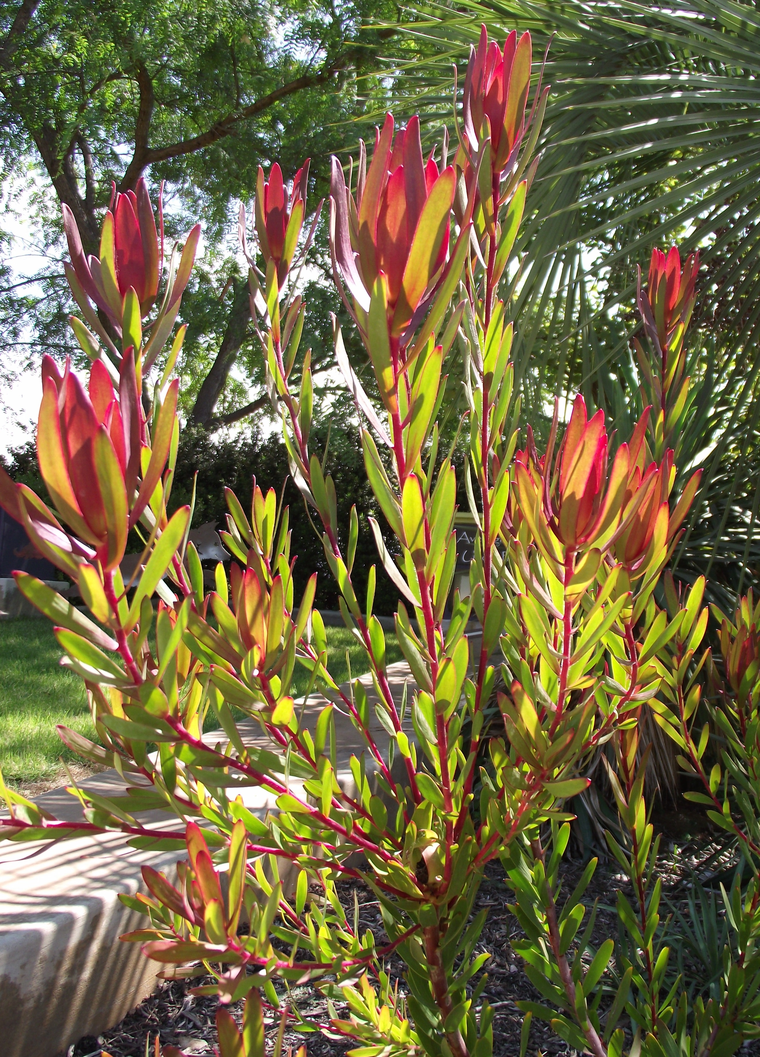 Leucadendron salignum × laureolum 'Rising Sun' — a Leucadendron hybrid. In The Water Conservation Garden At Cuyamaca College, located in El Cajon, southern California.